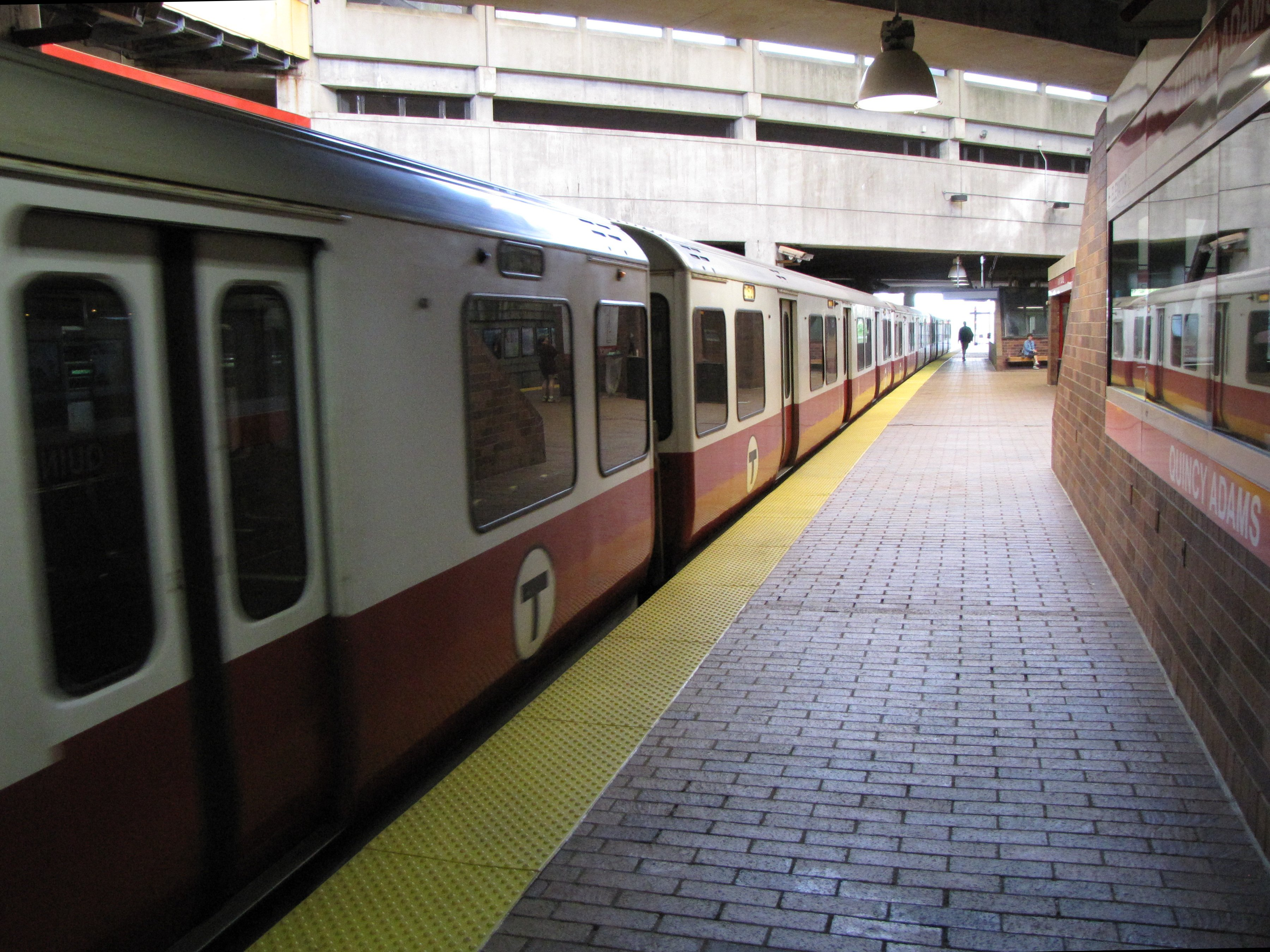 A Red Line train departs the MBTA Quincy Adams station.